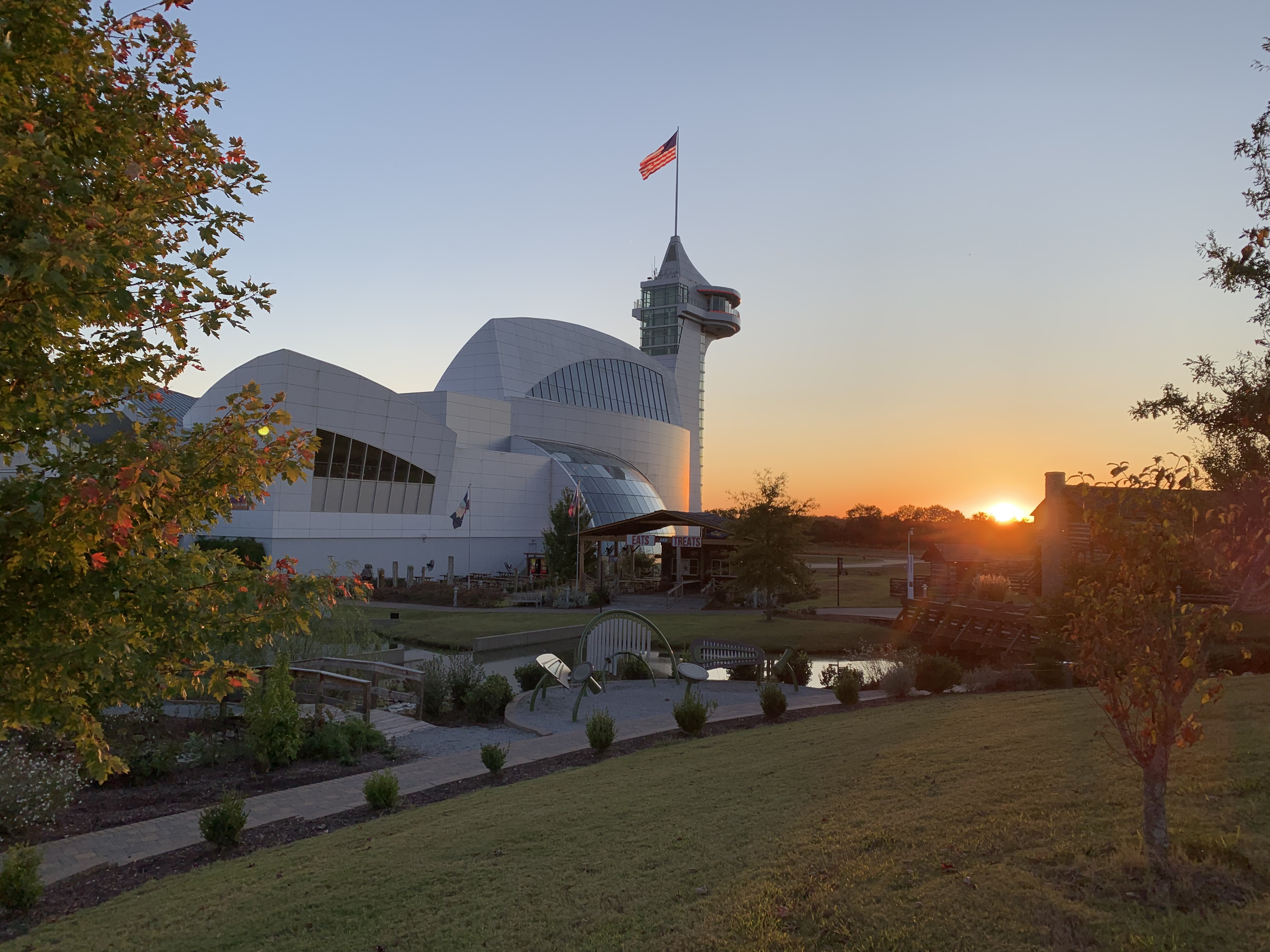 Discovery Center from the Northeast